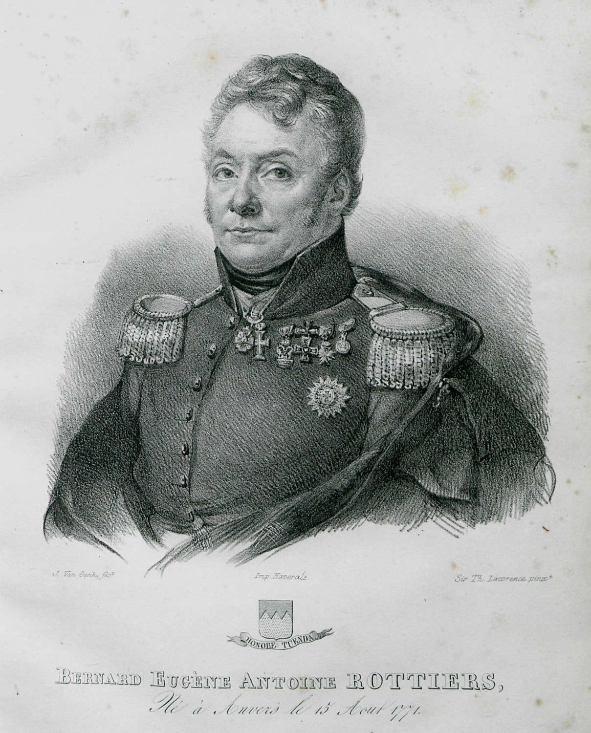 Bernard Eugène Antoine Rottiers. Description des Monumens de Rhodes, dediée à sa majesté le Roi des Pays-Bas, Mme V. A. Colinez, Brussels, 1830 / Monumens de Rhodes, Mme V. A. Colinez, Brussels, 1828.